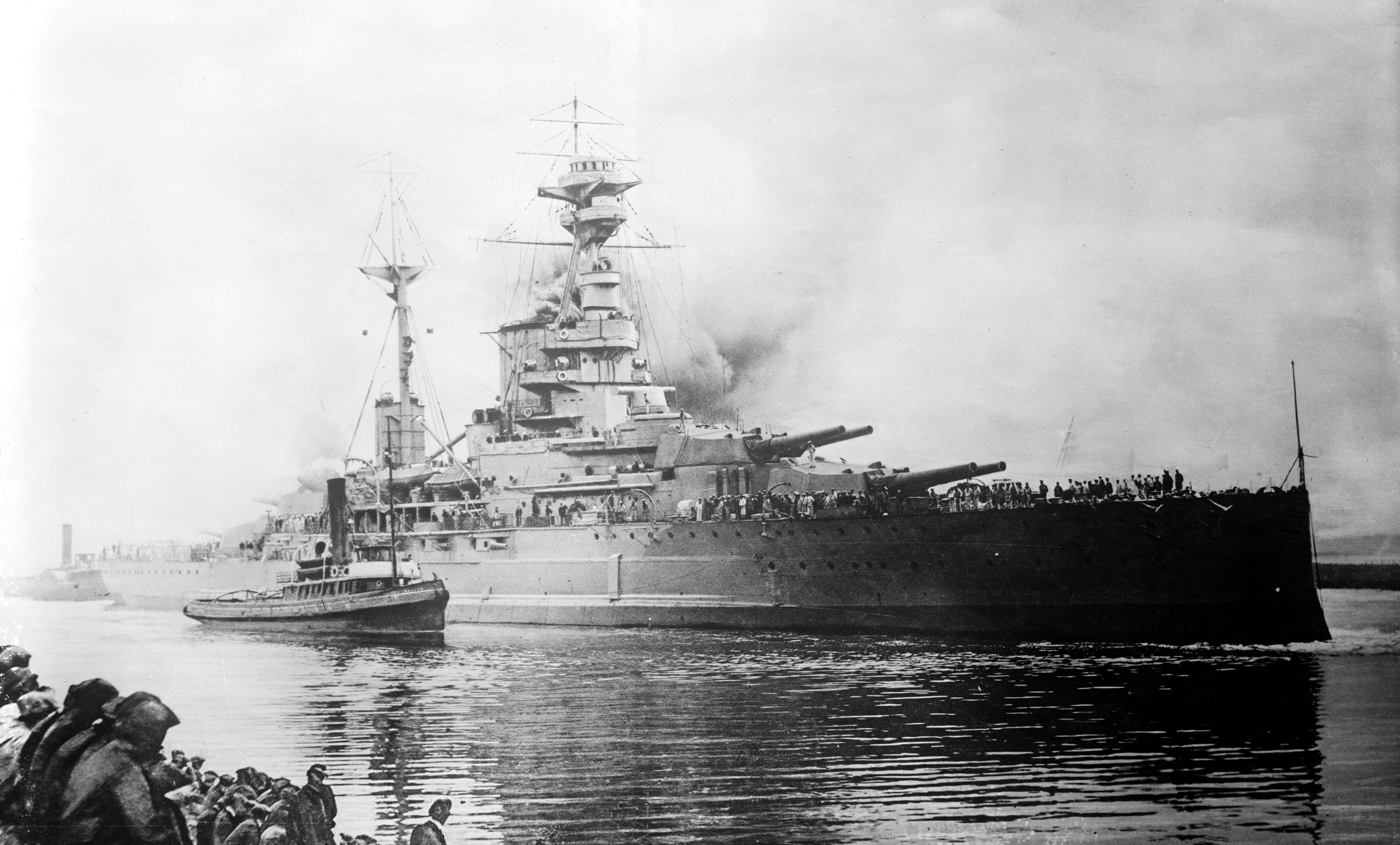 British battleship HMS Ramillies. Date of photo not given, but most likely between 1916 (ship's launch) and mid 1920s. This is most probably on the way down the Clyde in 1916 when it was launched at Dalmuir.